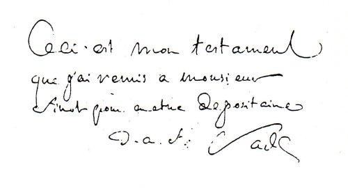 Manuscript of Marquis de Sade's will